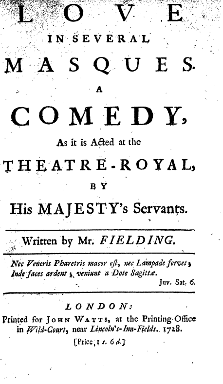 Fielding, Henry. Love in several masques. A comedy, as it is acted at the Theatre-Royal, by His Majesty's servants. London: Printed for John Watts, 1728.